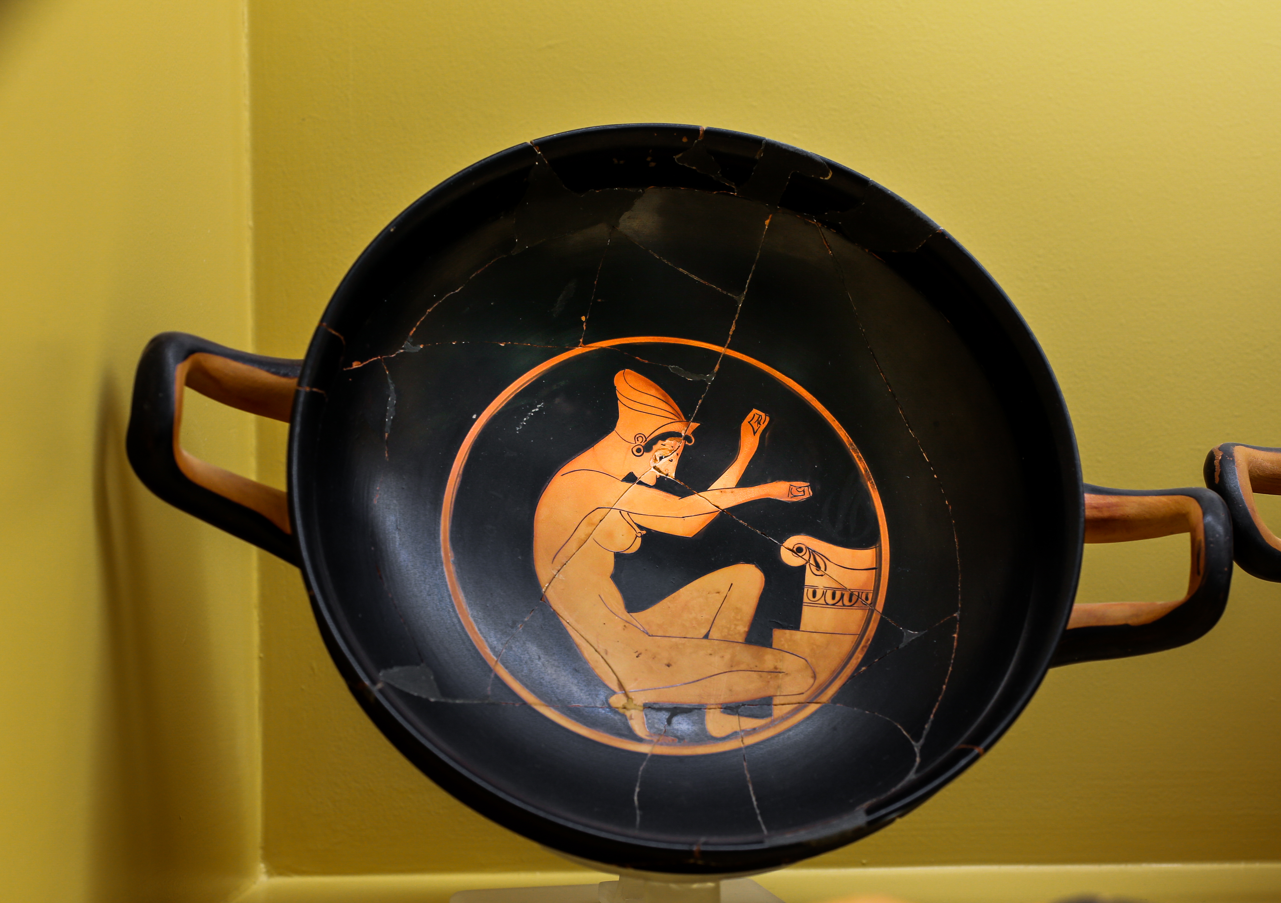 object type / vase shape: attic red figure cup (kylix) - description interior: naked hetaira, wearing a sakkos in her hair, kneeling in front of an altar, holding a wreath over the fire; inscription: CHAIRAS (sic) - exterior not decorated (black) - production place: Athens - painter:Painter of the Agora Chairias cups - period / date: late archaic, ca. 500-490 BC - material: pottery (clay) - findspot: Athens, Ancient Agora - museum / inventory number: Athens, Ancient Agora Museum P 24102 - bibliography: John D. Beazley, Attic Red-Figure Vase-Painters, Oxford 1963(2), 176, 1 - Please note: The above museum permits photography of its exhibits for private, educational, scientific, non-commercial purposes. If you intend to use the photo for any commercial aime, please contact the museum and ask for permission.